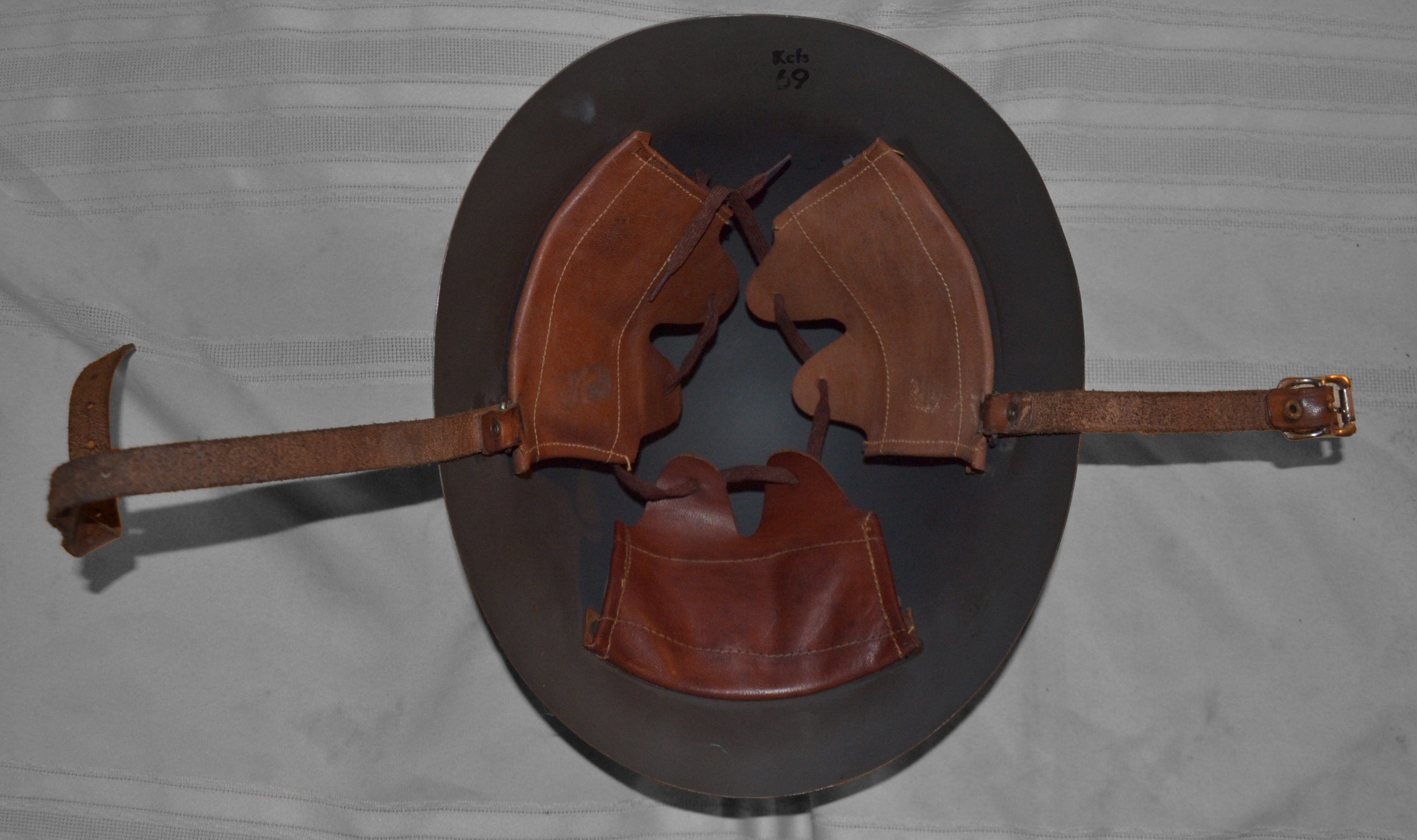 M26 Helmet liner